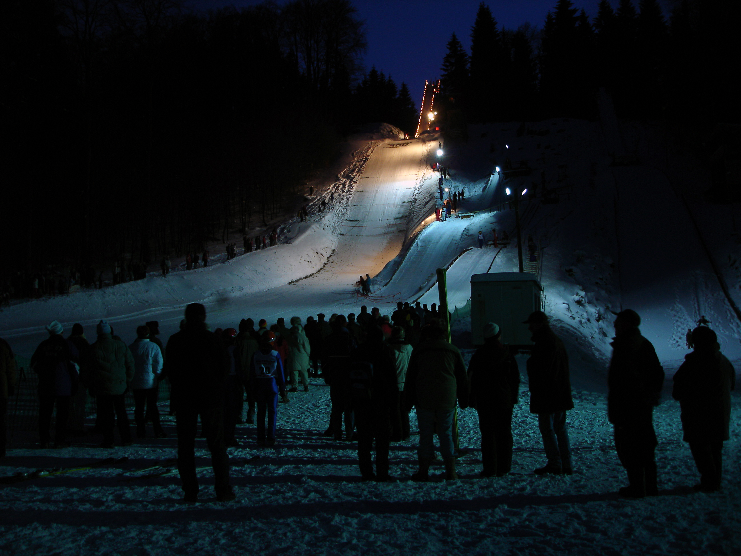 ski jump in Ruhla at night in 2005